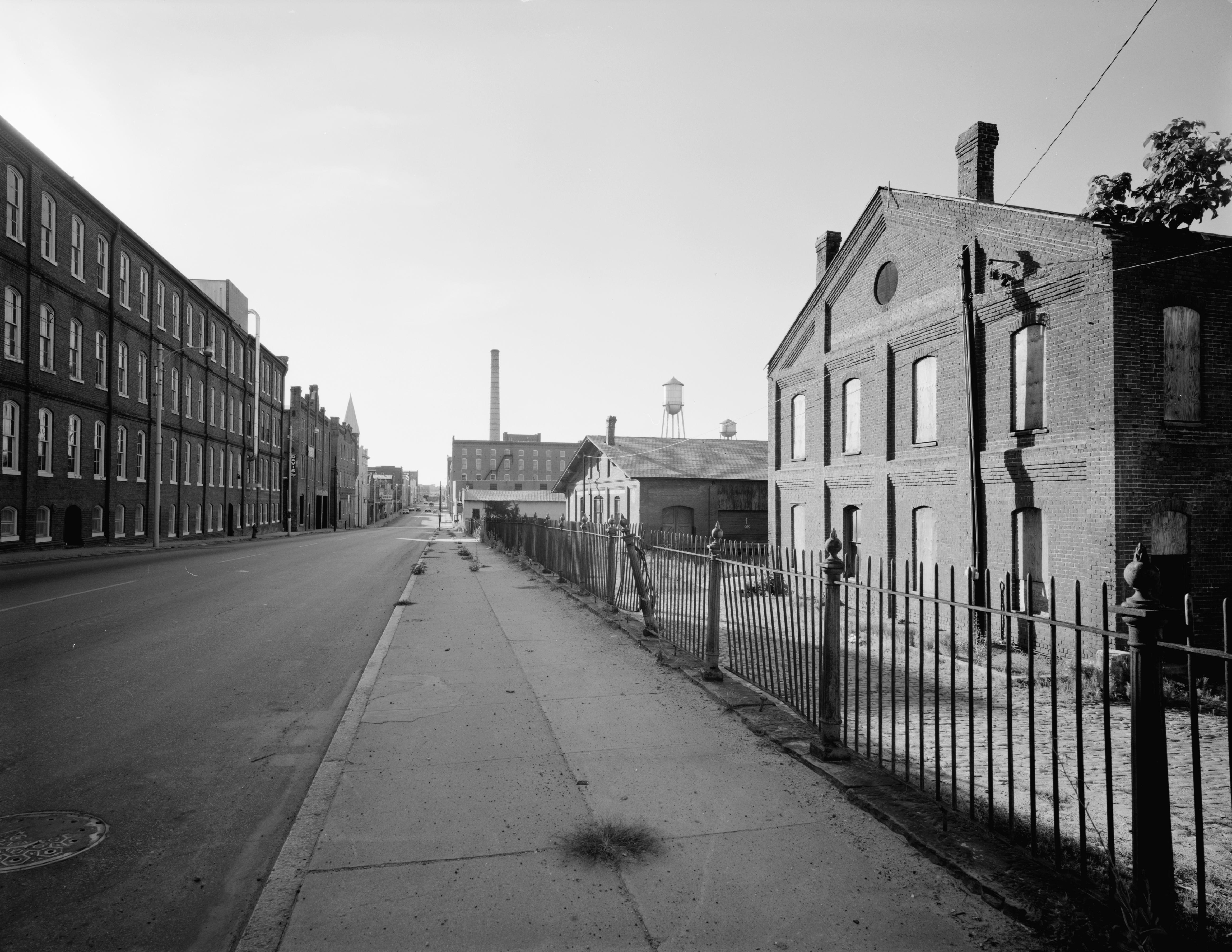 Photographic view looking northwest on Craghead Street, Imperial Tobacco Co. building on left, Danville, Virginia. Tobacco District Rehabilitation Project, Danville